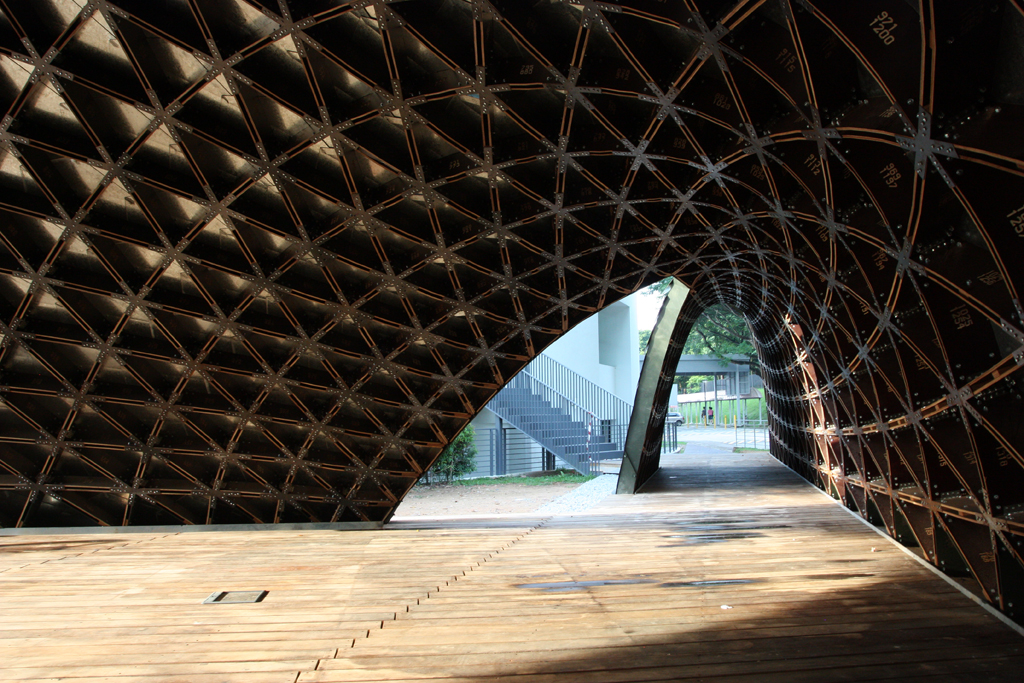 Design: SUTD City Form Lab. Engineering: ARUP Singapore Construction: AIH Builders and SUTD students Sponsors: AIH, ARUP, Autodesk Completion: May 2013